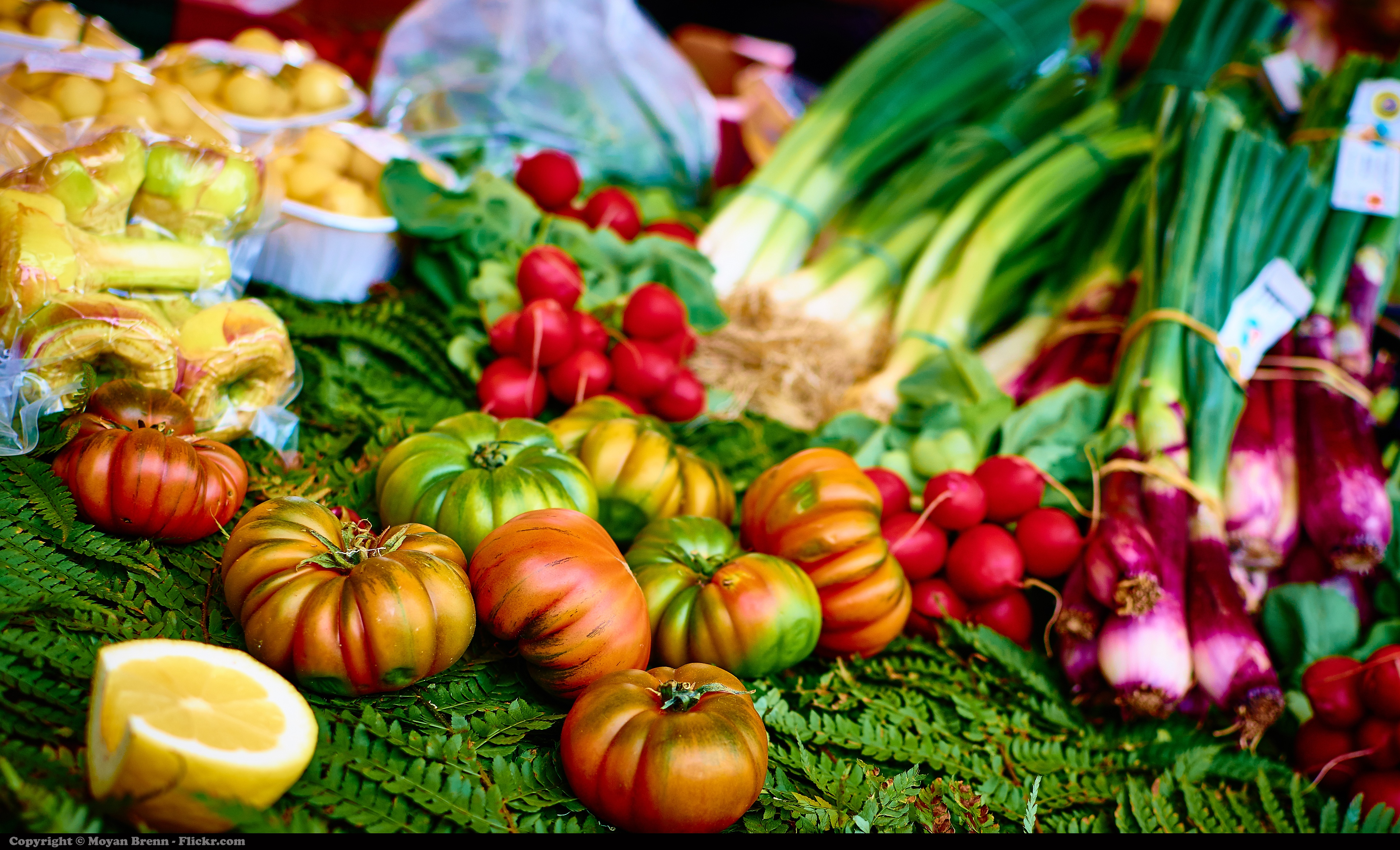 close view of a greengrocer table